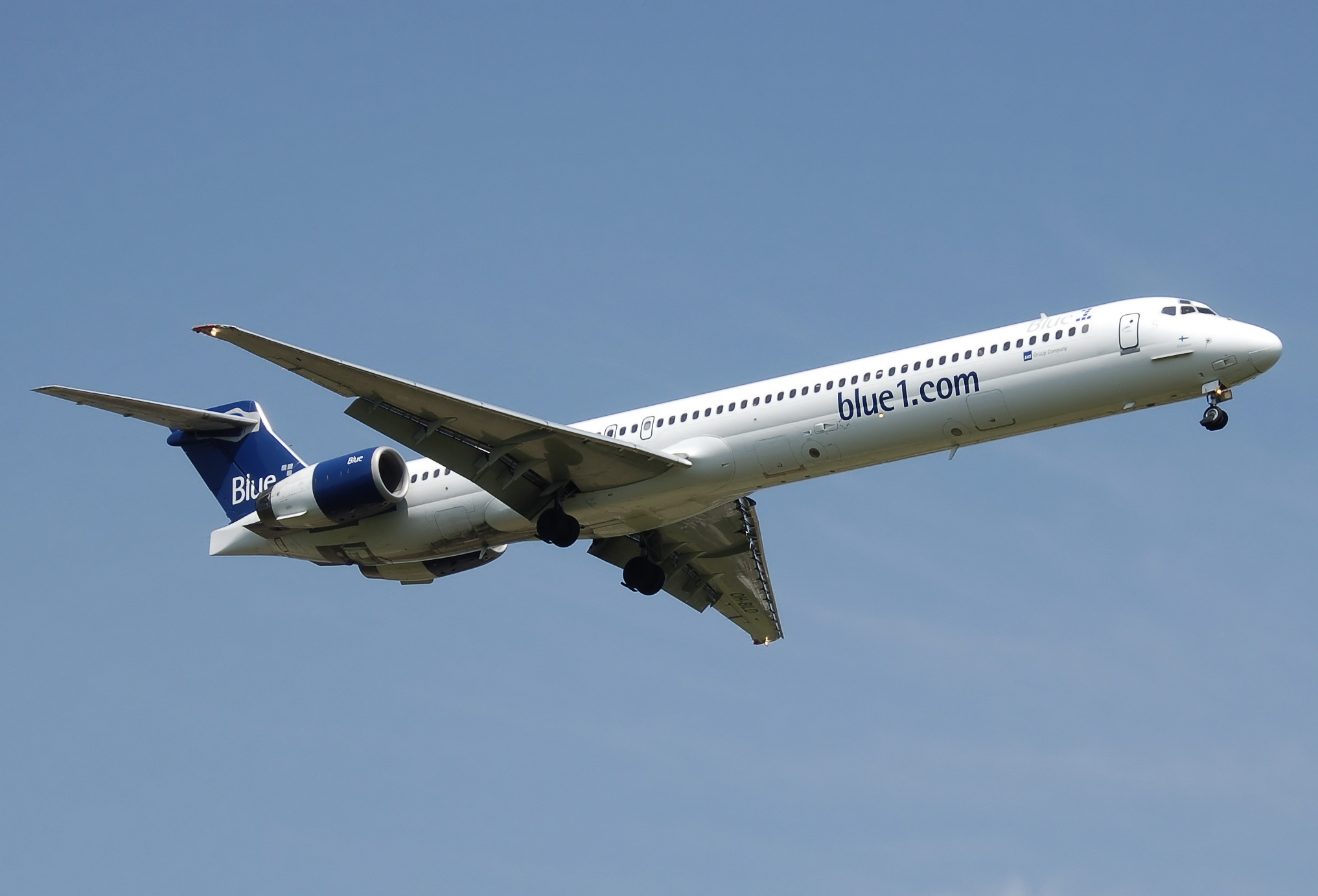 Blue1 MD-90 landing at London Heathrow Airport